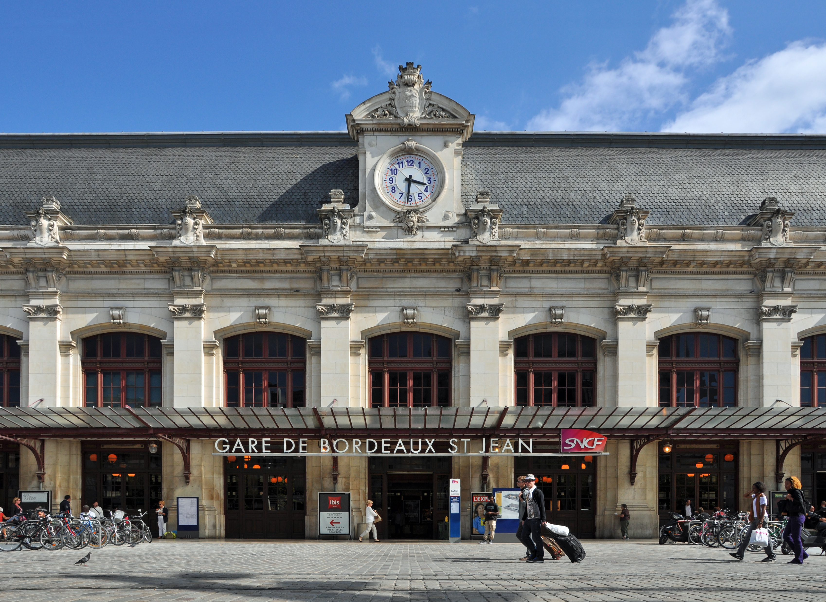 Bordeaux (France): Bordeaux-Saint-Jean train station